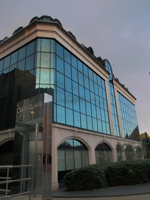 Observatory House, Slough - Observatory House, Slough This modern office block at the corner of Herschel Street and Windsor Road stands on the site of a demolished building of the same name where astronomer William Herschel lived, and erected his great 40-foot telescope. LinkExternal link The name "Oury Clark" is a reference to the building to its left, housing a firm of accountants.